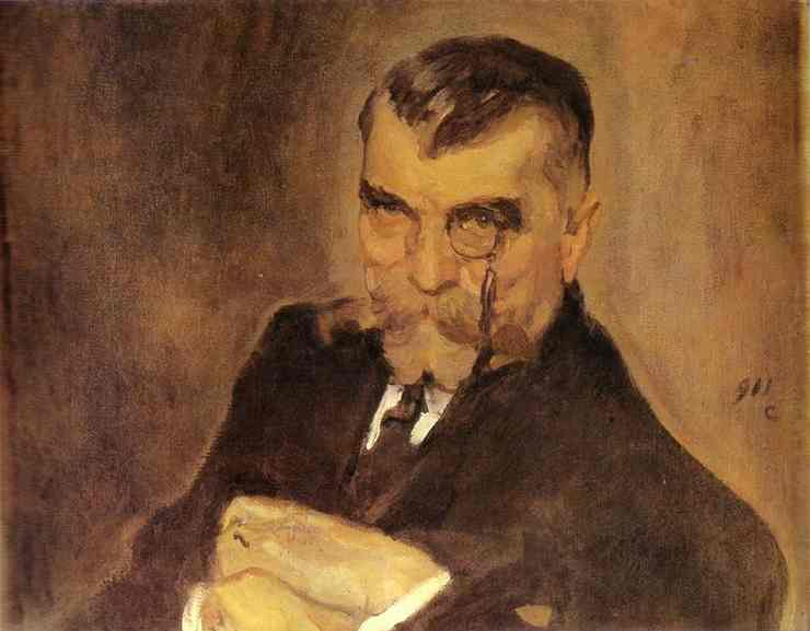 Portrait of Alexei Stakhovich. 1911. Oil on canvas. The Memorial Museum of Konstantin Stanislavsky, Moscow, Russia.